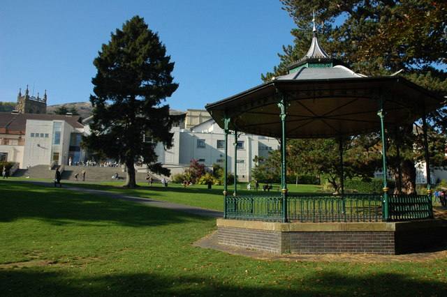 Bandstand in Priory Park